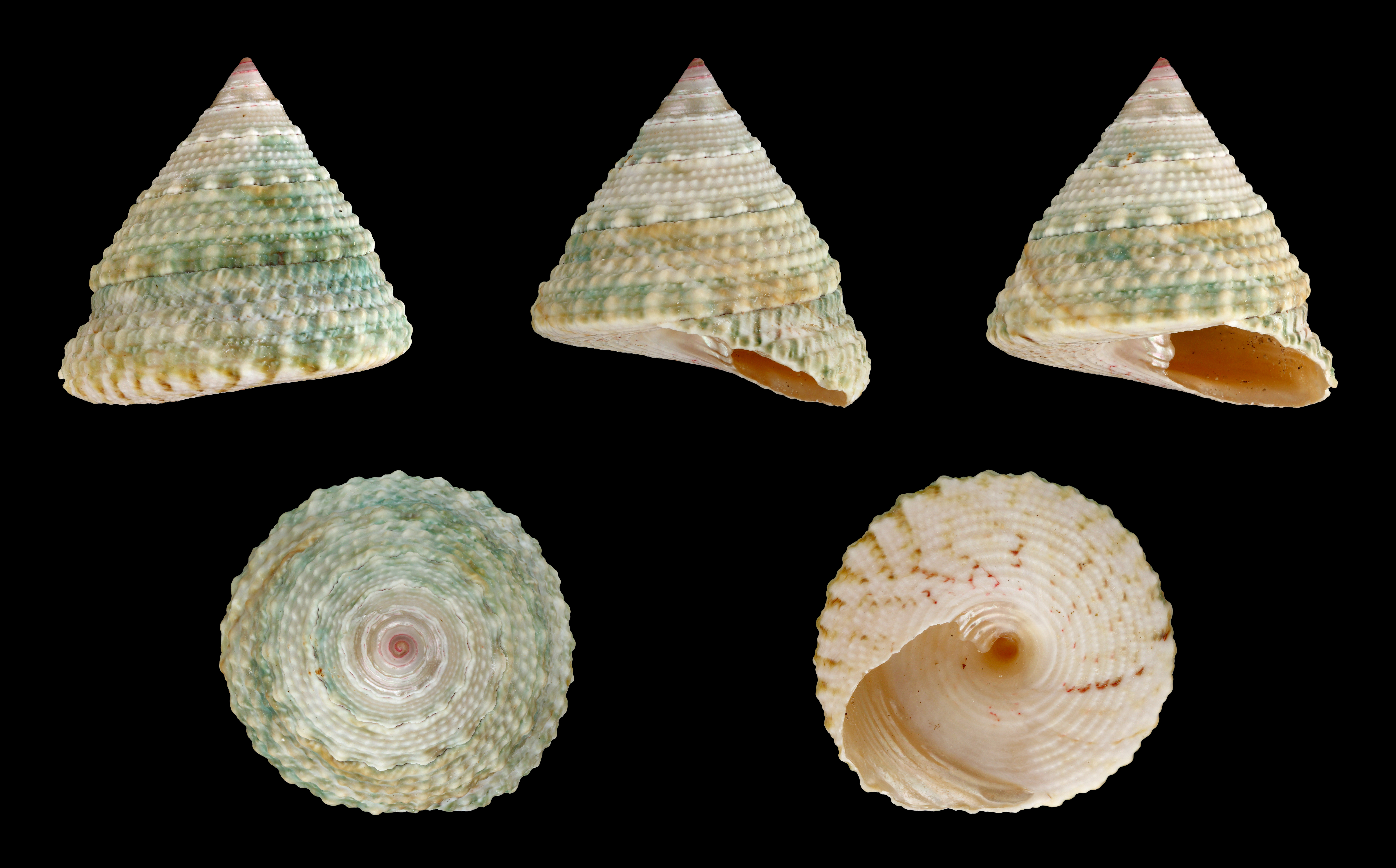 Maculated Top Shell; diameter 2.8 cm; Originating from Bohol, Philippines; Shell of own collection, therefore not geocoded. Dorsal, lateral (right side), ventral, back, and front view.